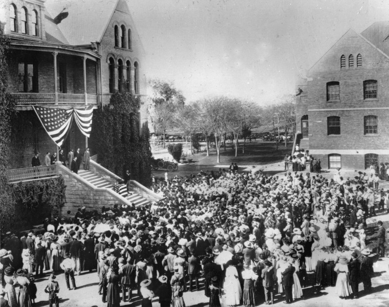 Former President Theodore Roosevelt addresses a crowd of students at the Old Main of Arizona State University. March 20, 1911